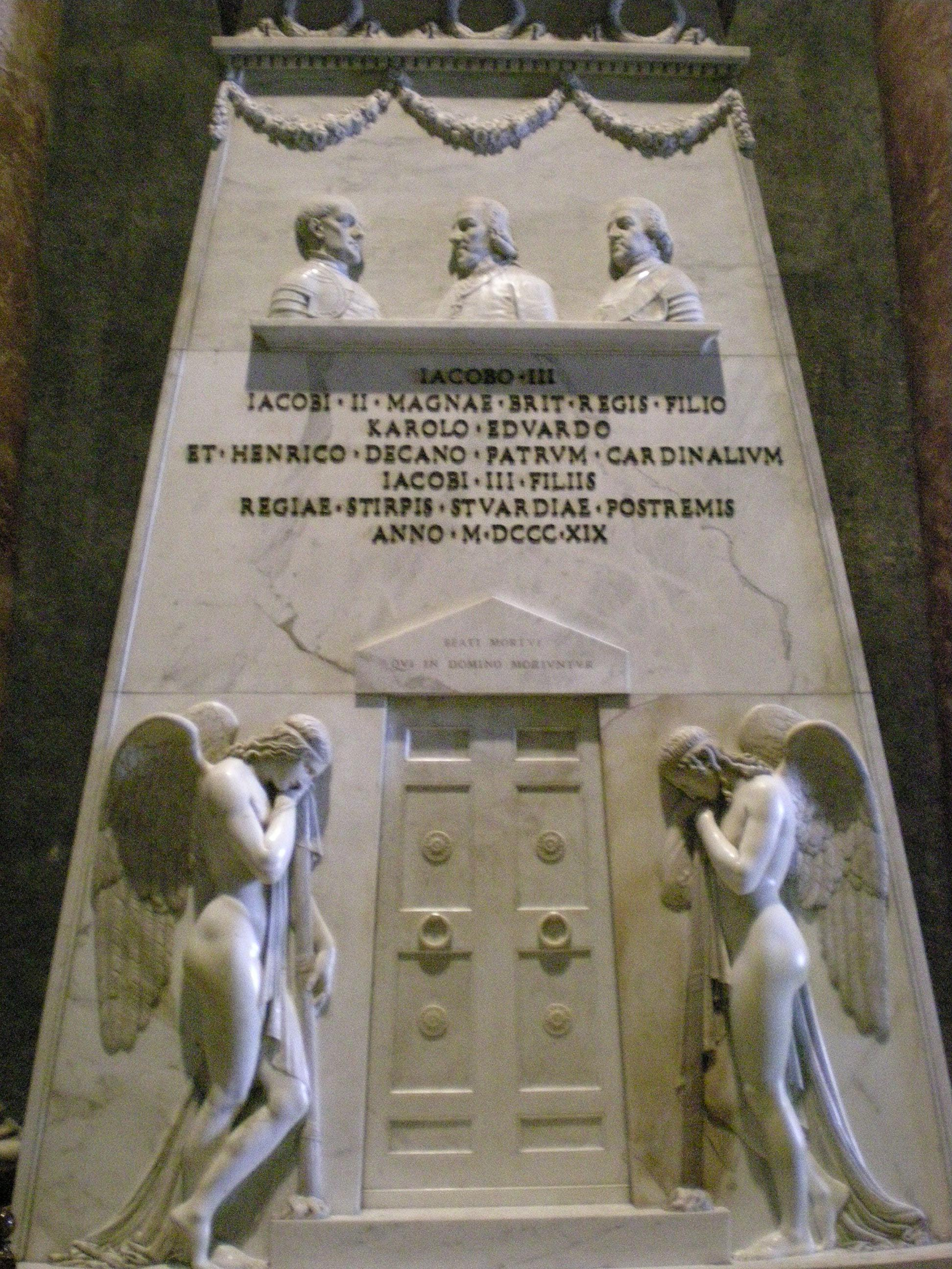 "Monument to the Royal Stuarts" by Antonio Canova, St Peter's Cathedral, Roma. Shows King James III The Old Pretender (left), his two sons Charles Edward (right) and Henry Benedict (middle)